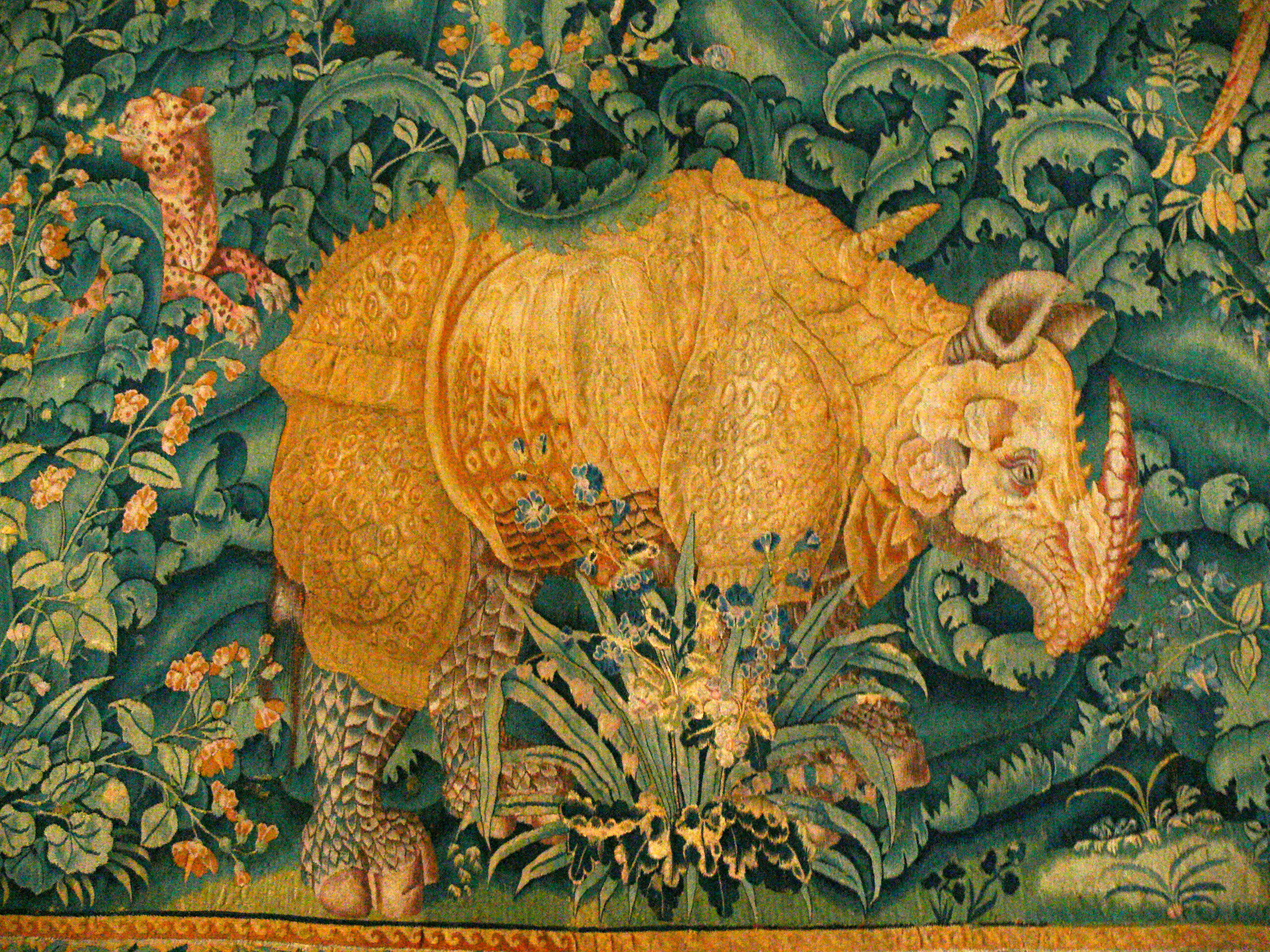 Kronborg castle. Tapestry ( 1550 ) from Flanders, showing a rhinocerus.